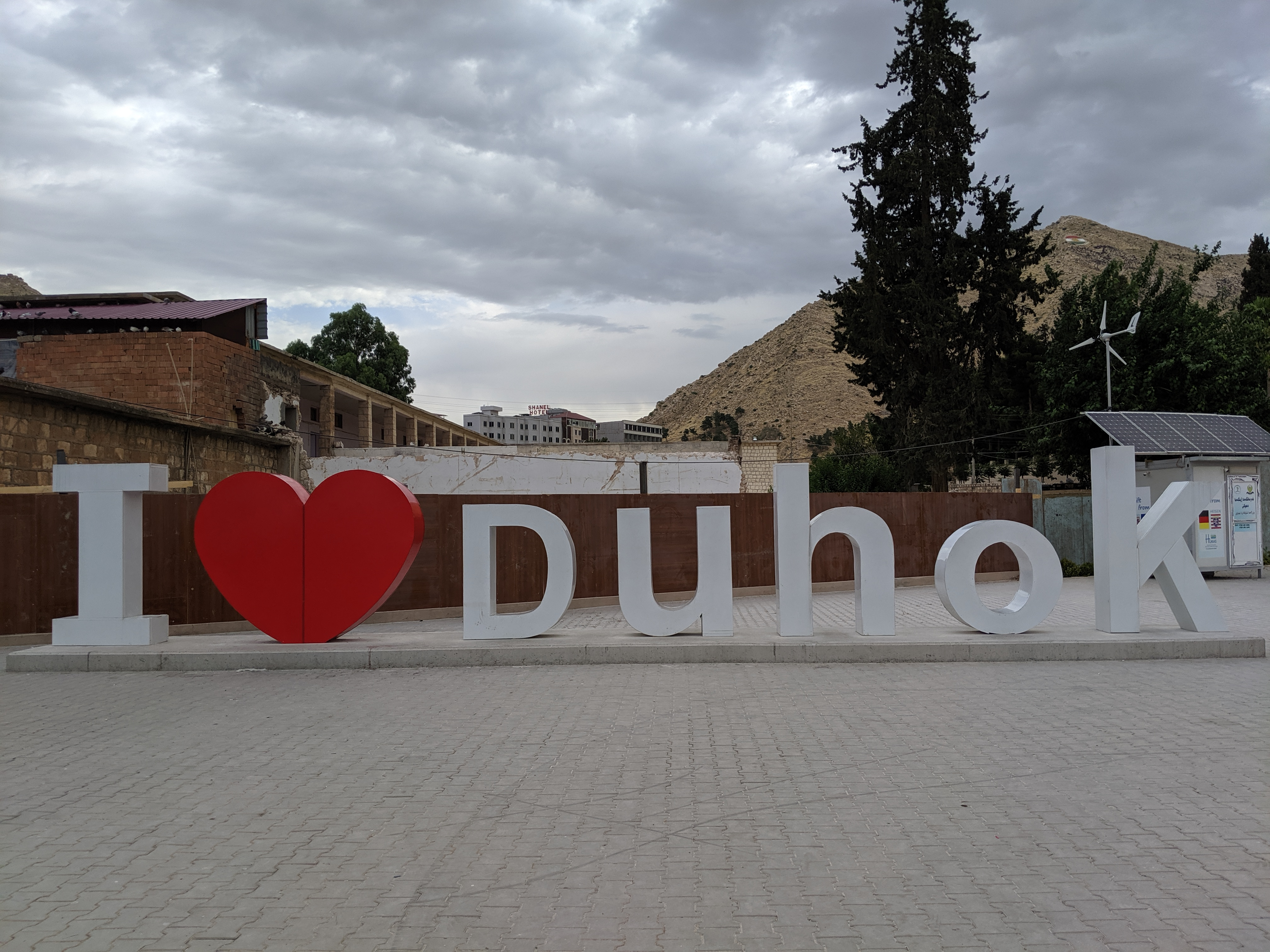 "I Love Duhok" - Bazaar, Duhok, Iraqi Kurdistan